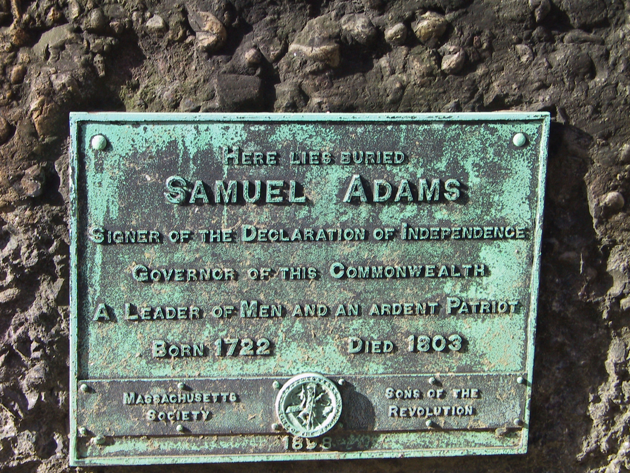 Plaque for Samuel Adams. Granary Burying Ground, Boston, Massachusetts, 2002.Samuel Adams